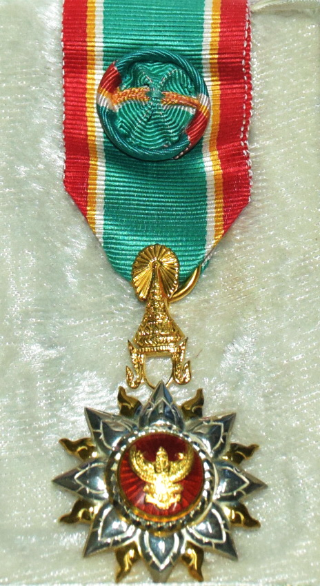 Chatuttha Direkkhunaphon Order of the Direkgunabhorn of Thailand in Wat Kungtapao Local Museum. at Wat Khung Taphao, Ban Khung Taphao, Khung Taphao subdistrict, Mueang Uttaradit, Uttaradit Province, Thailand.)